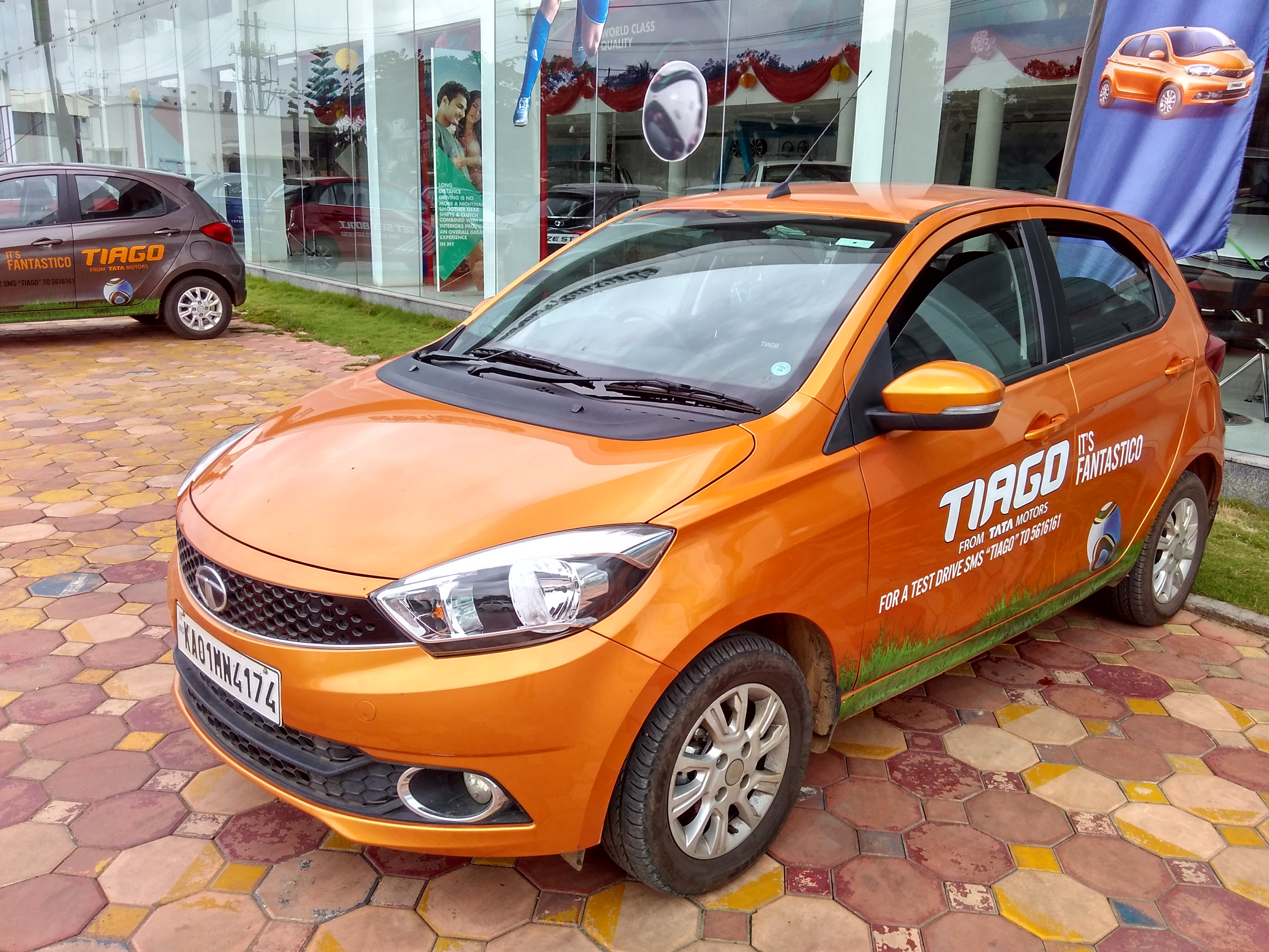 Tata Tiago XZ Petrol Test Drive car at Bengaluru